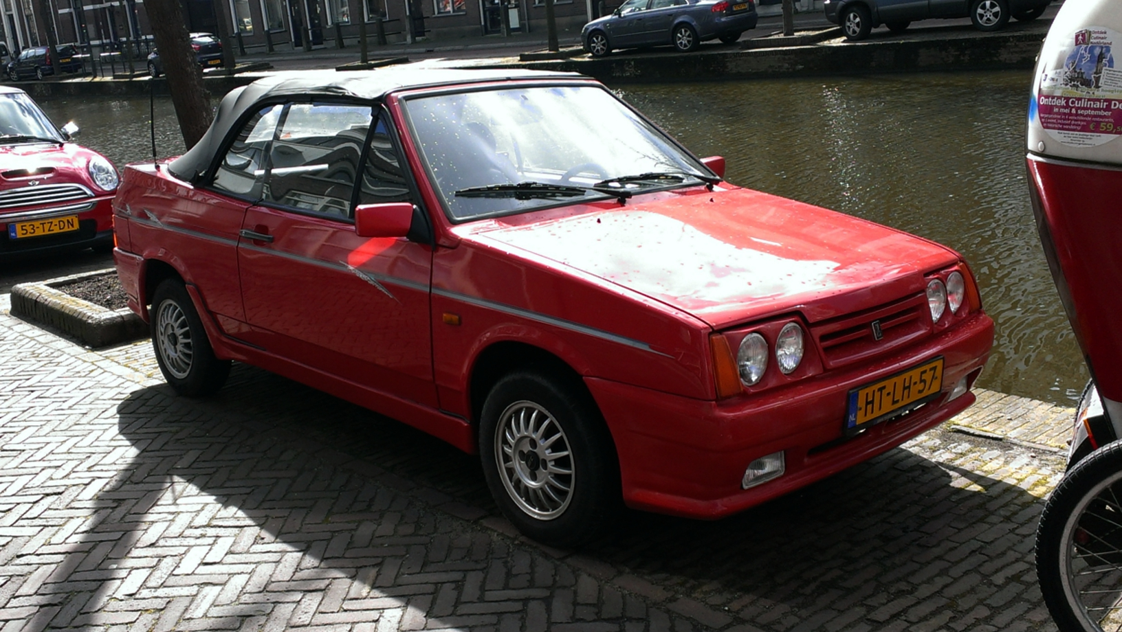 A Dutch Lada Samara Cabriolet